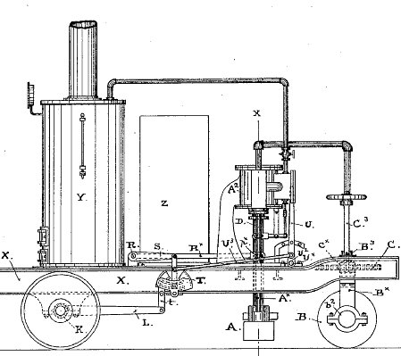 Excerpt from diagram of 452,184 for POWER STREET PAVING MACHINE by F. A. Huntington